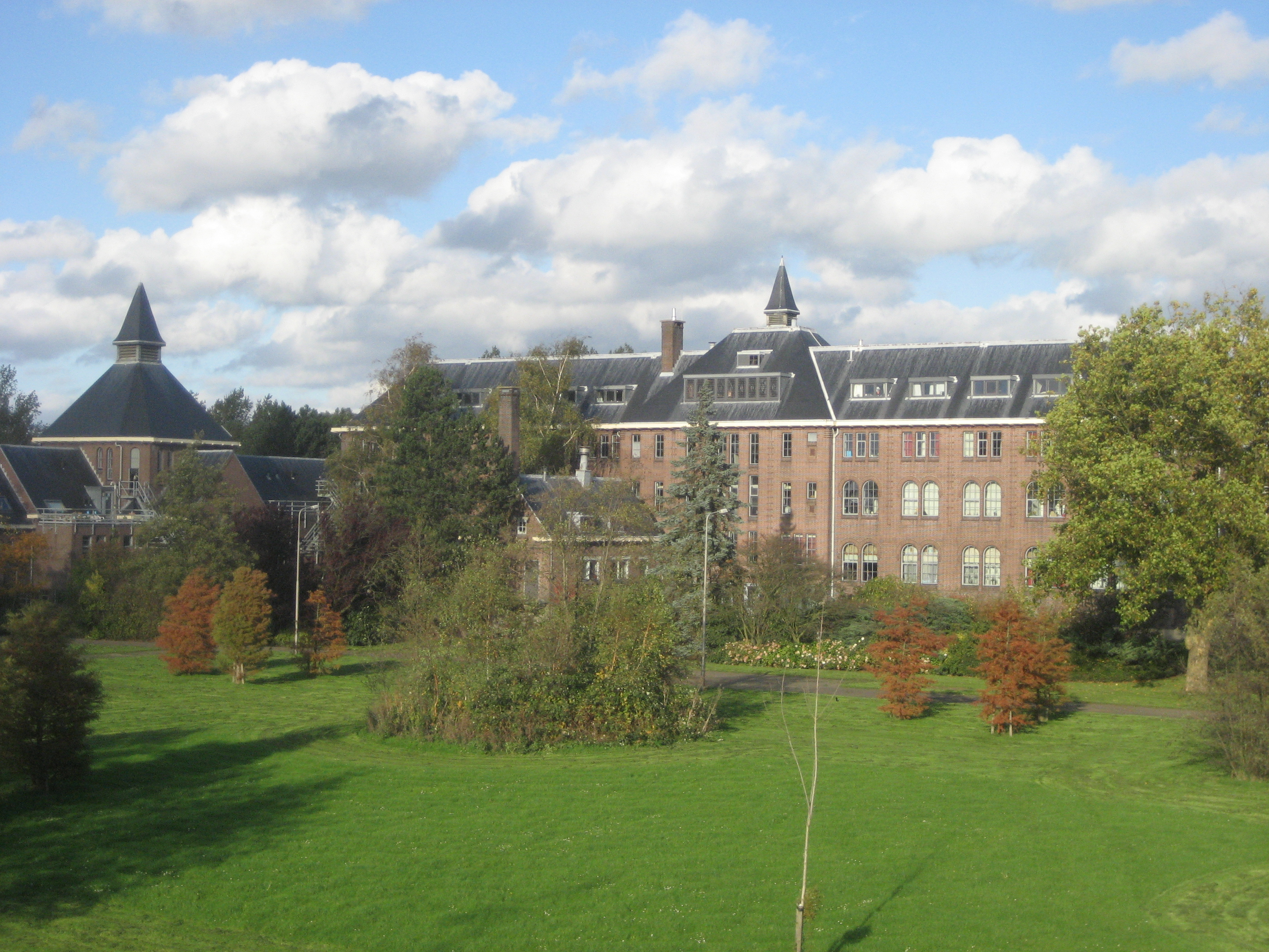 Kruisherenklooster Mater Dolorosa at the Vrouwenweg in Leiden (formerly Zoeterwoude). Architects Bik & Breedeveld, Nico van der Laan. Built in 1926. 1967-1982 Gemiva, Foundation for mentally disabled people. 198X-now student housing Leiden University, "Huize Weipoort"